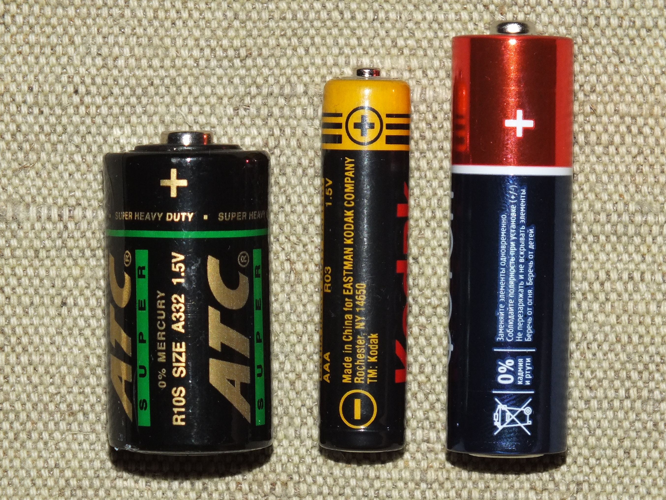 Electric batteries